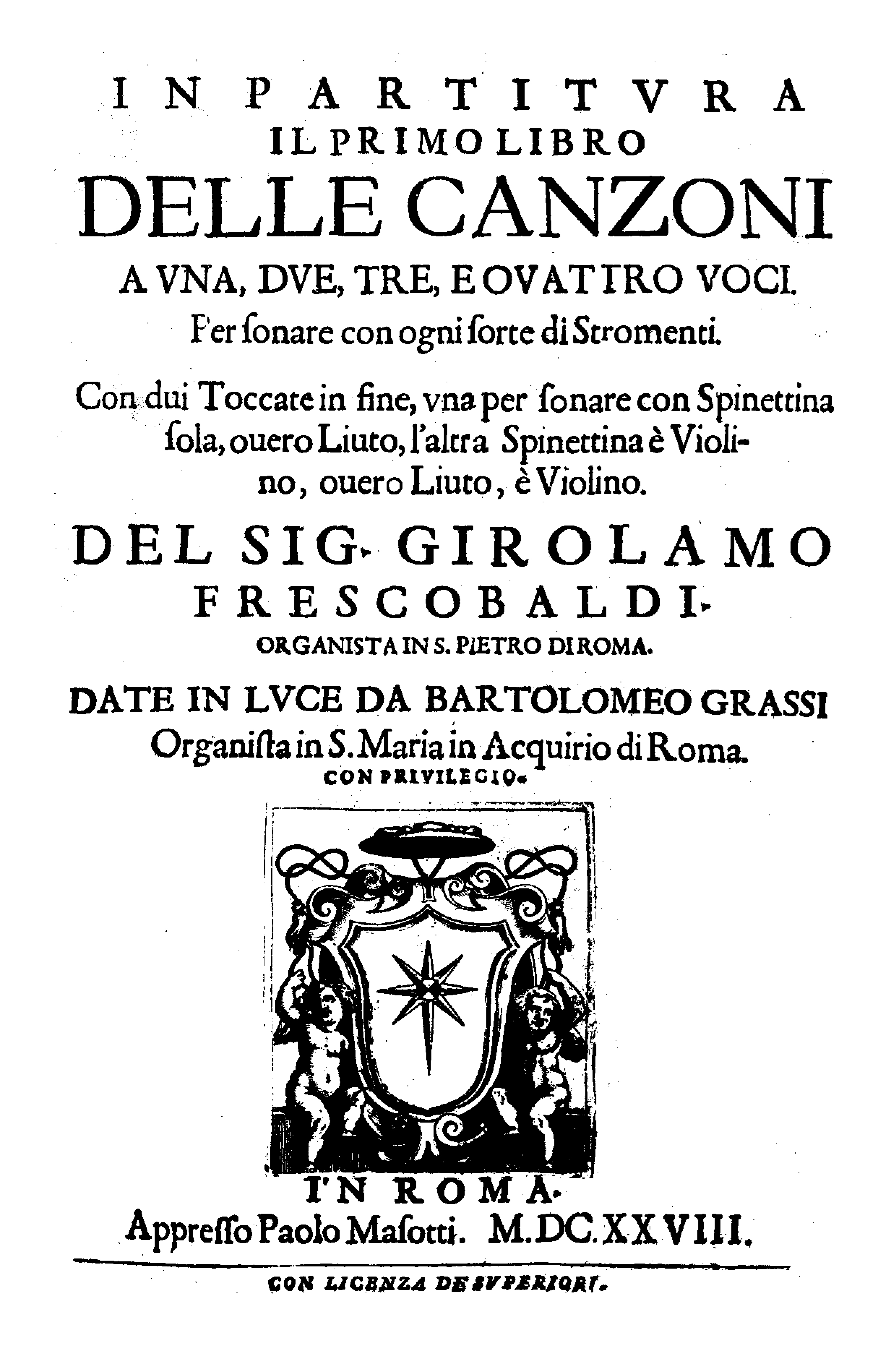 Title page of Girolamo Frescobaldi, Il Primo Libro delle Canzoni, in score, edited by Bartolomeo Grassi. Rome: Paolo Masotti, 1628